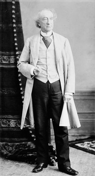 Sir John A. Macdonald